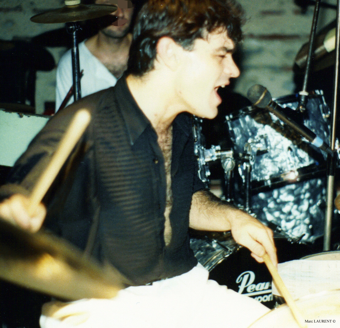 Francis Lassus performance in Pau